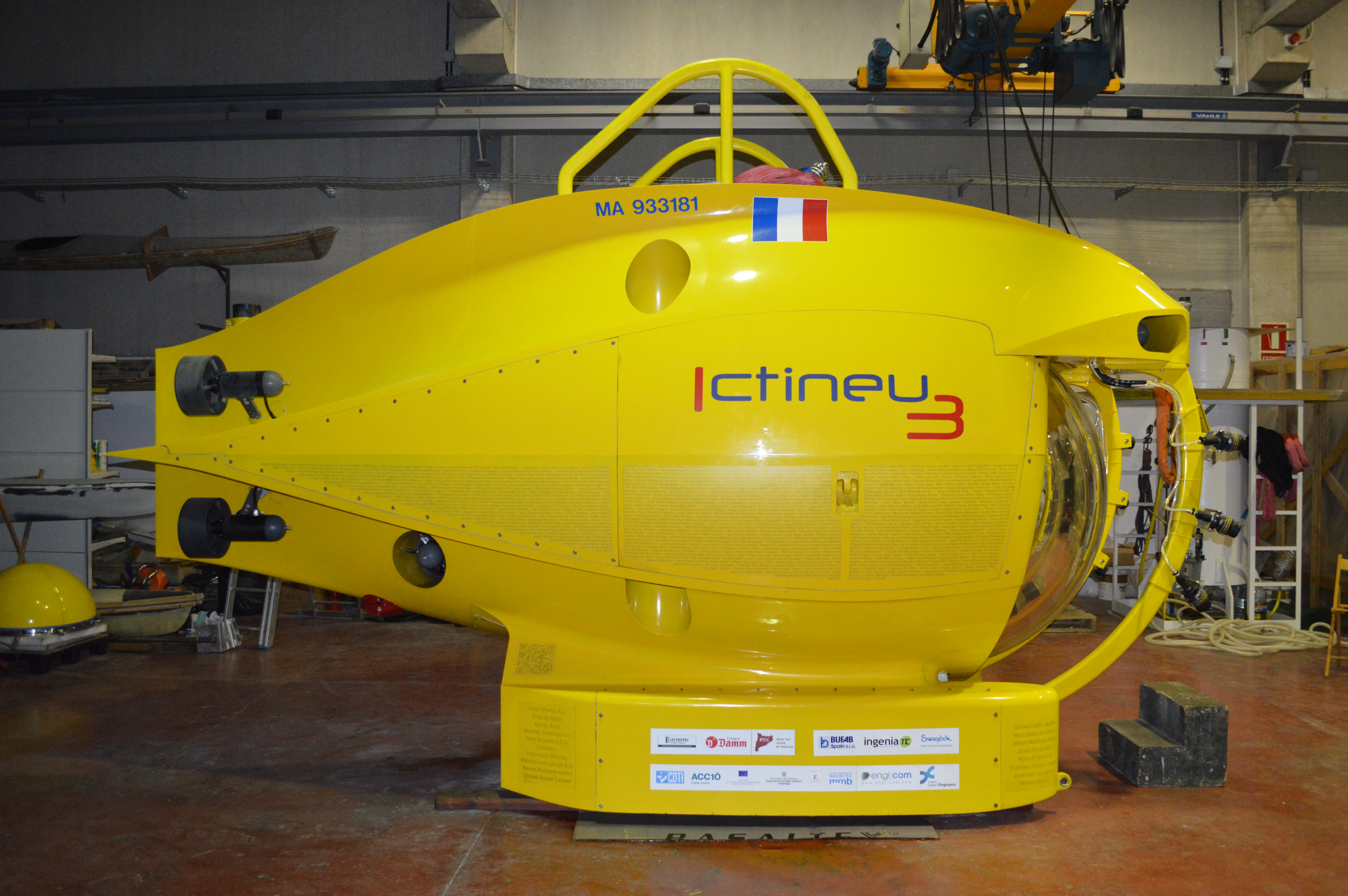 Side view of the scientific submarine Ictineu 3.